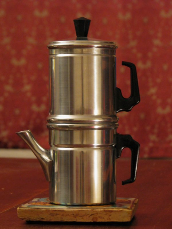 Neapolitan flip coffee pot, picture taken by User:Csant on 2007-12-29